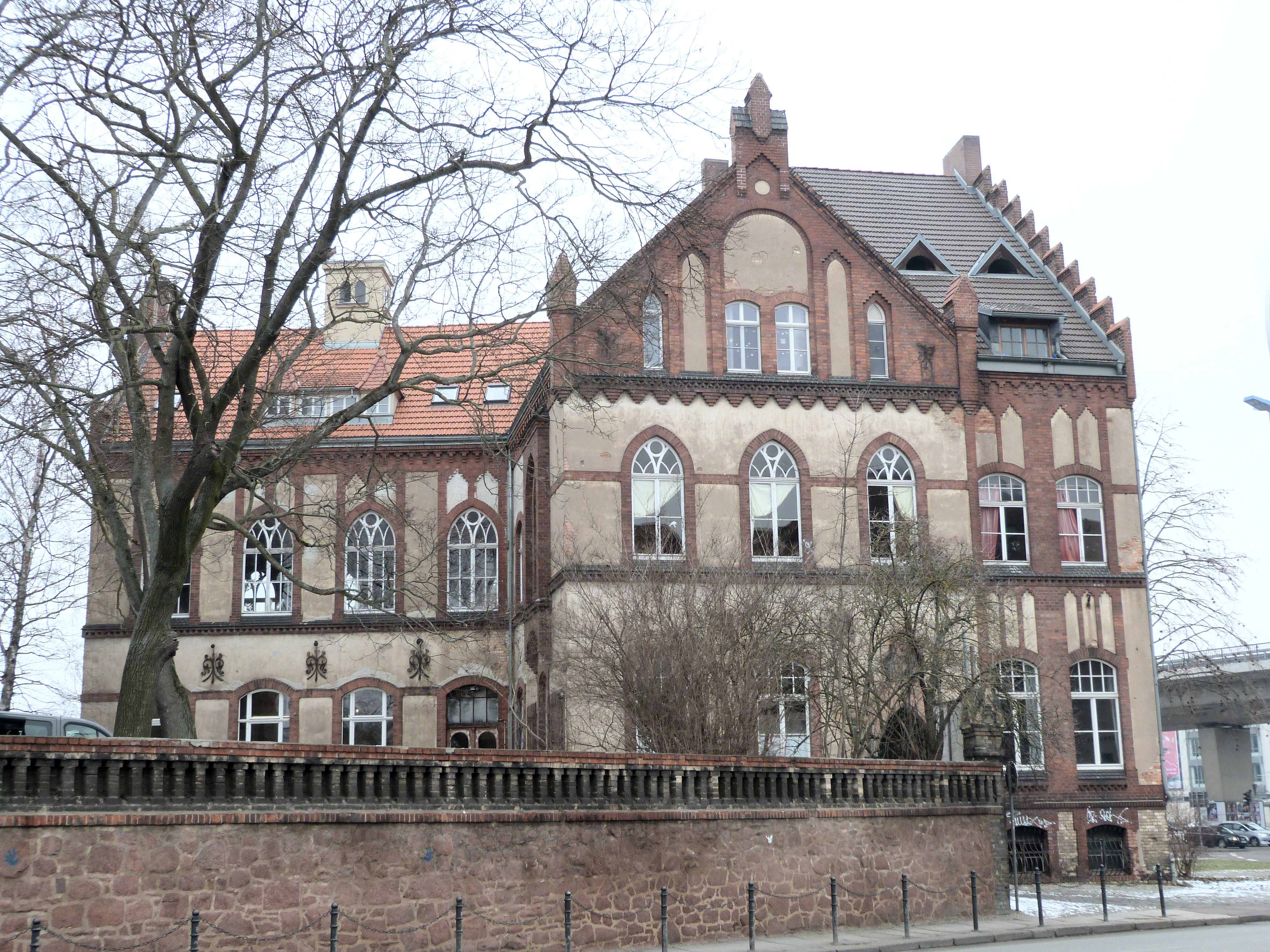 Priest's office St. George, Halle (Saale)